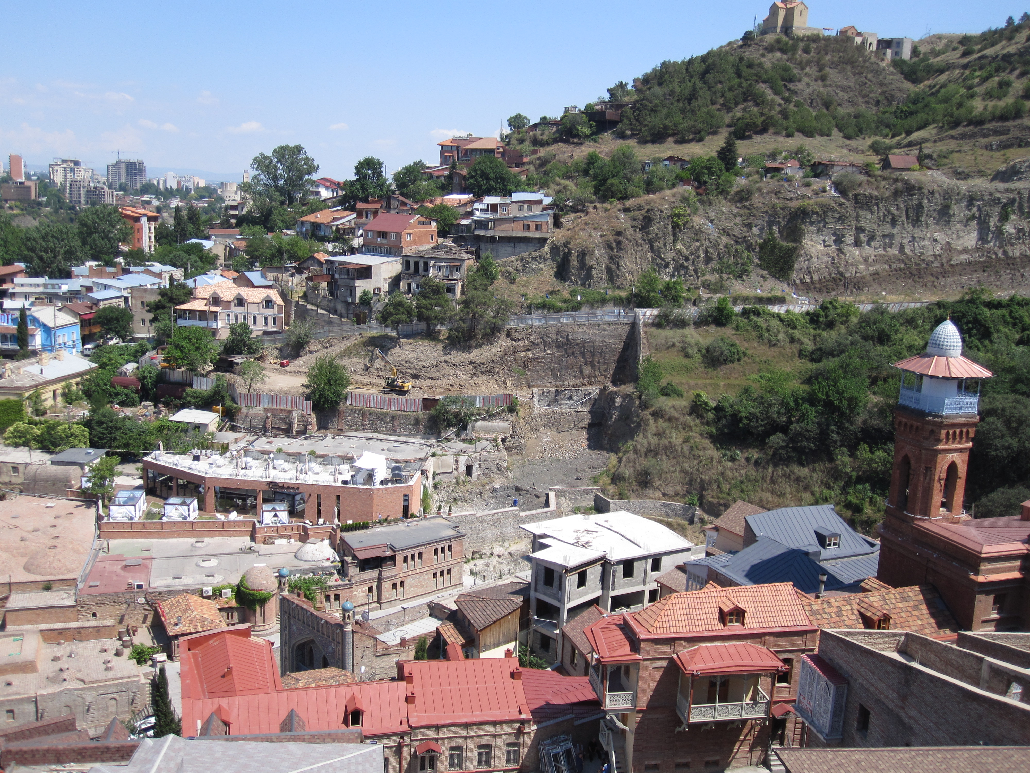 View on the Azeri quarter in Tbilisi, Georgia. The minaret of the Tbilisi Mosque is seen on the right.